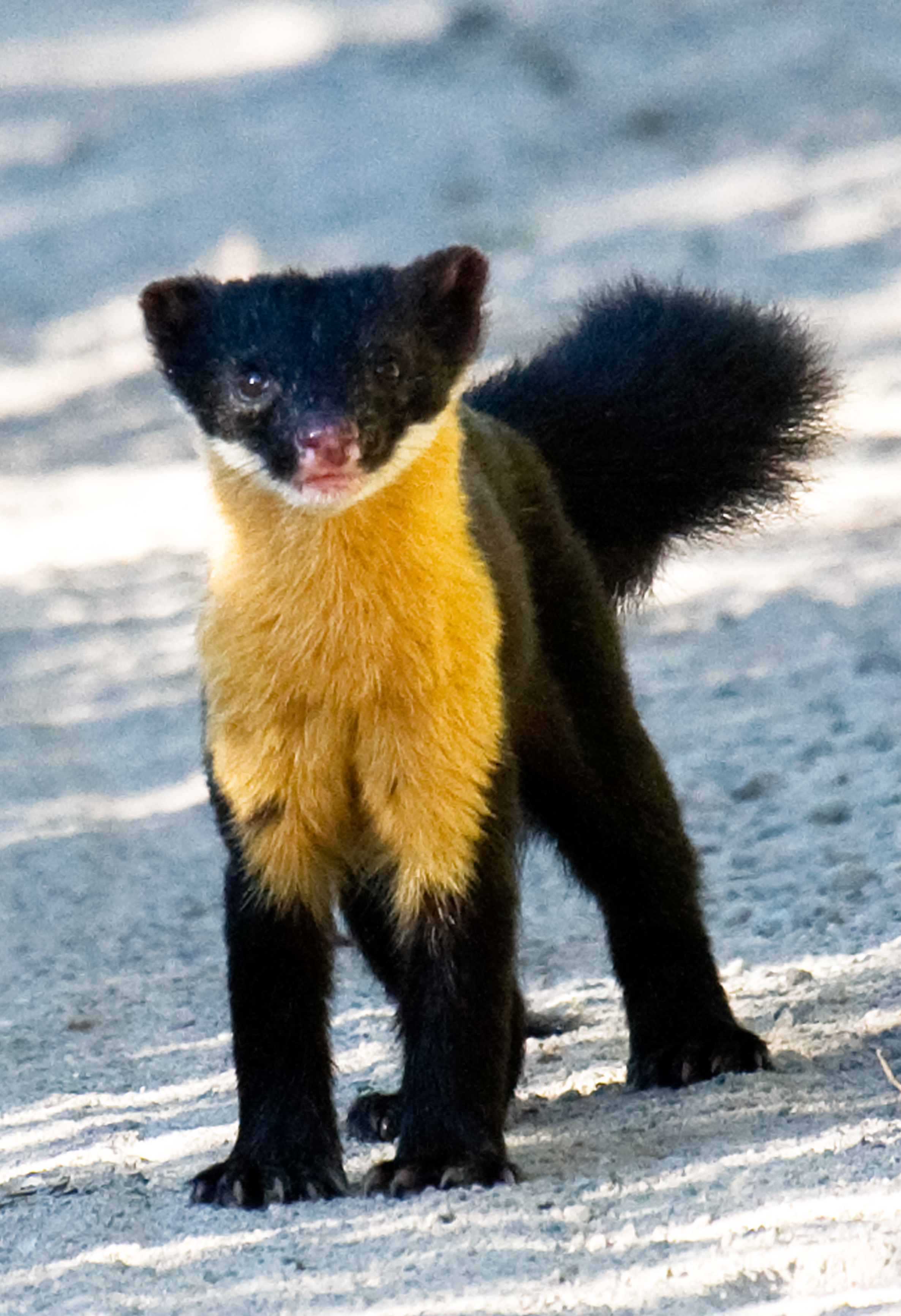 The Nilgiri marten (Martes gwatkinsii) is the only species of marten found in southern India. It occurs in the hills of the Nilgiris and parts of the Western Ghats.